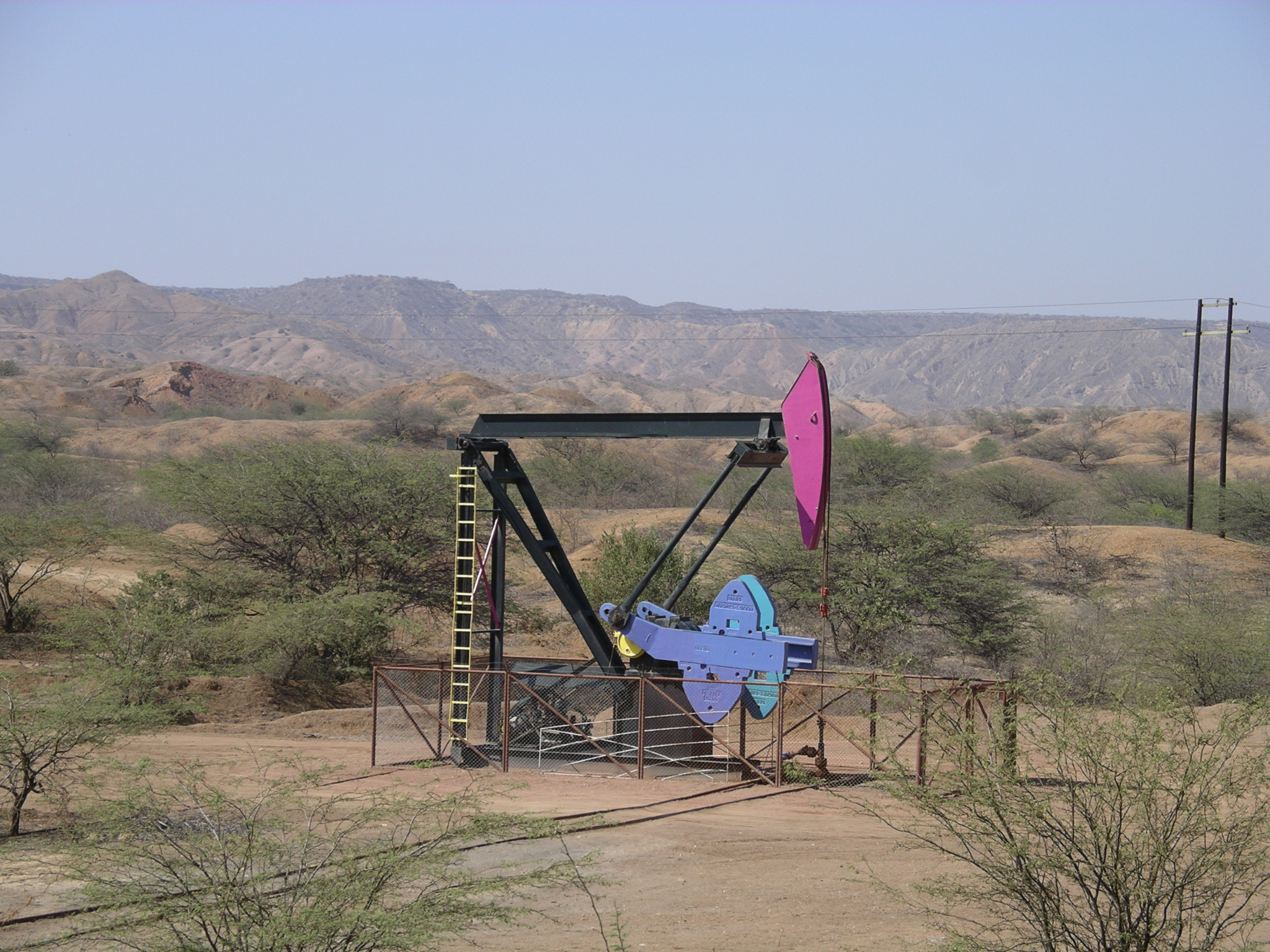 In semi-desertic northern Peru oil is being drilled by pumps. (near Los Organos, Piura, Peru)